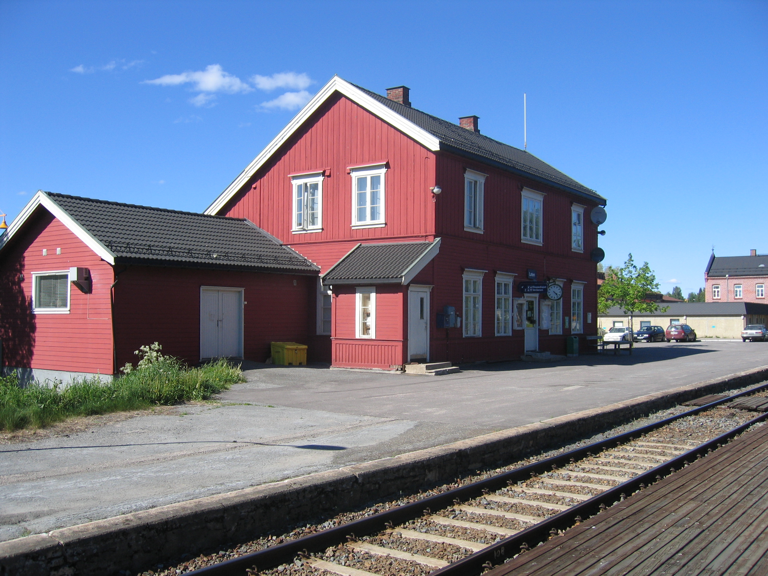 Løten railway station in Hedmark, Norway.